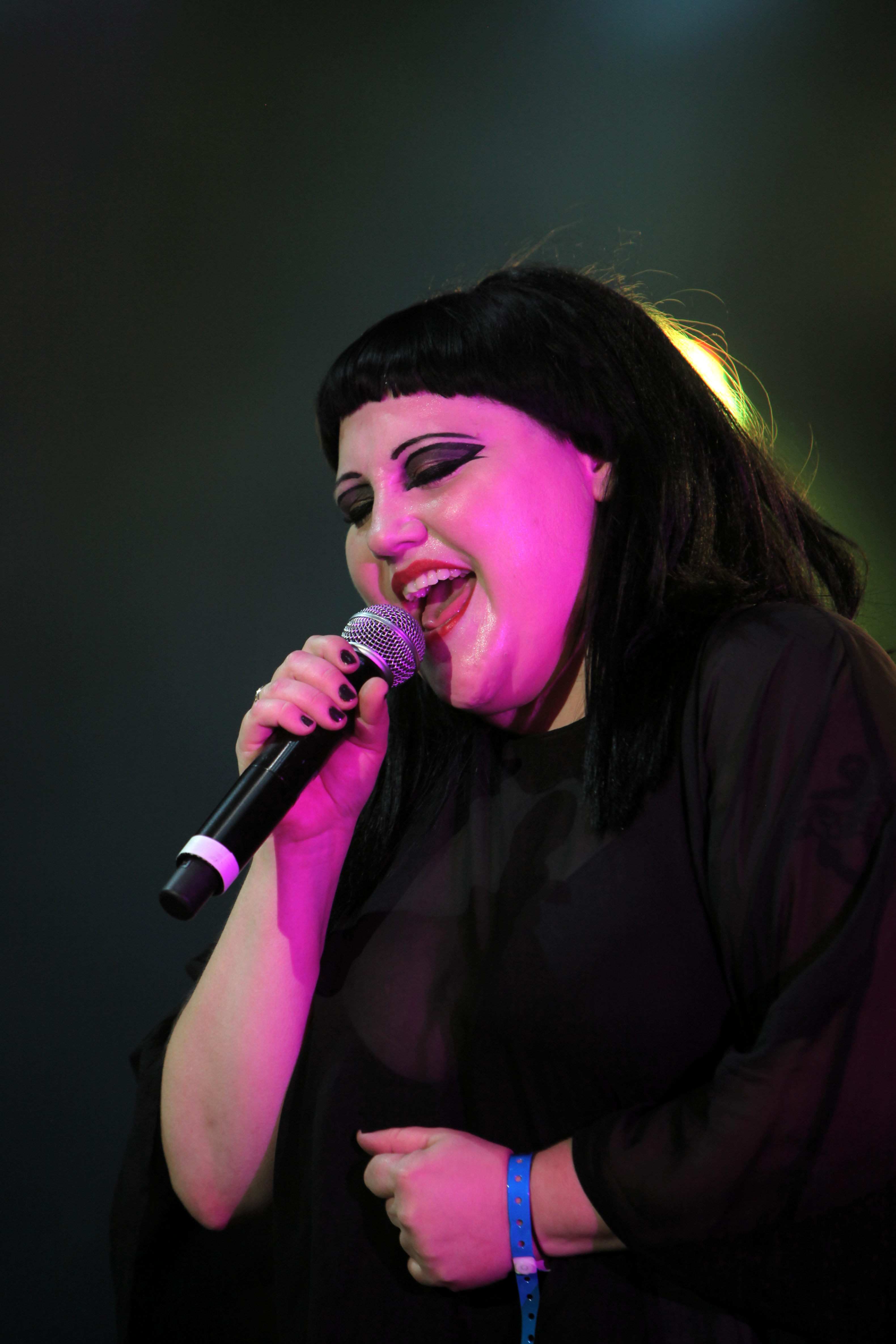 Beth Ditto at the Eurockéennes de Belfort 2011 The making of this document was supported by Wikimedia CH. (Submit your project!) For all the files concerned, please see the category Supported by Wikimedia CH.